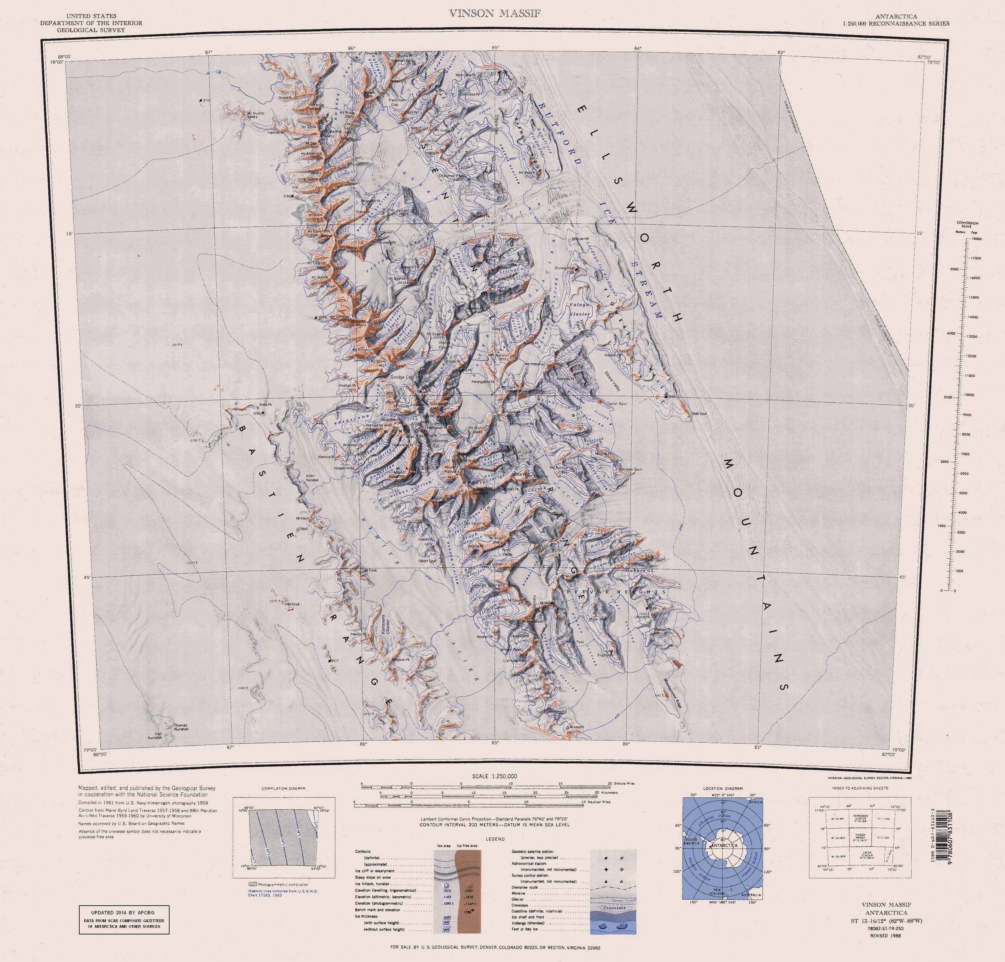 Map of Antarctica by the United States Antarctic Resource Center of the US Geological Survey (USGS).